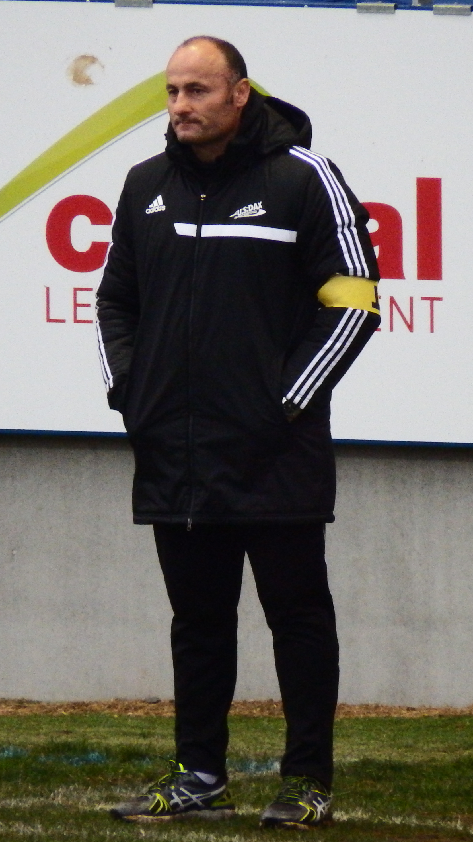 Pro D2 2014-2015 — 28 March 2015, Stade Jean-Alric. Match between: Stade aurillacois — US Dax